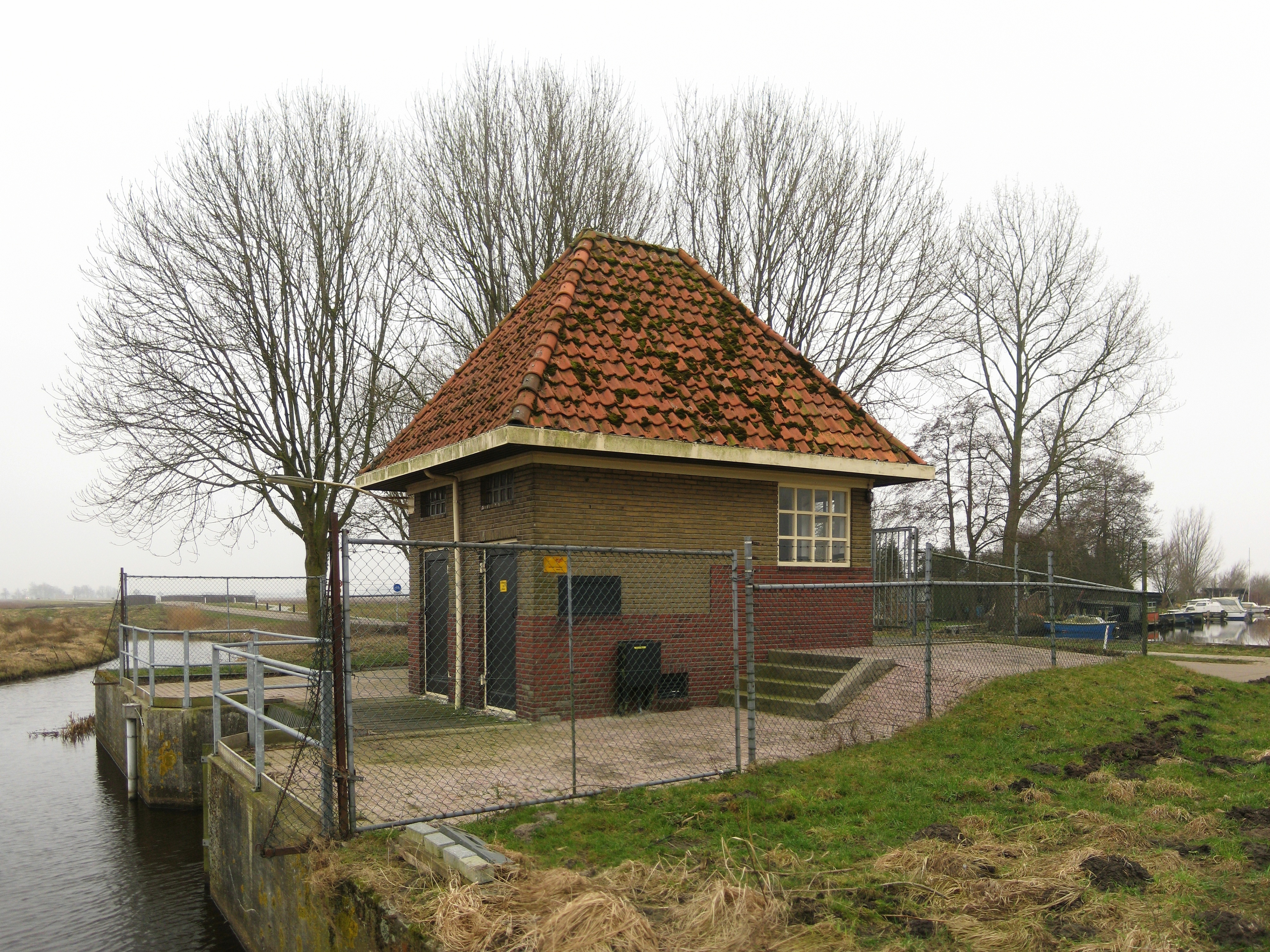 Pumping station annex electricity distribution substation (c. 1935) near Roderwolde, a village in the Dutch province of Drenthe.